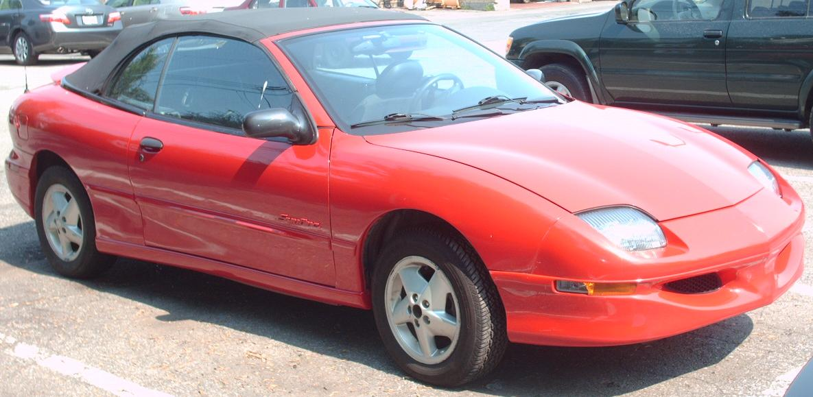 1995-1999 Pontiac Sunfire convertible photographed in Montreal, Quebec, Canada.